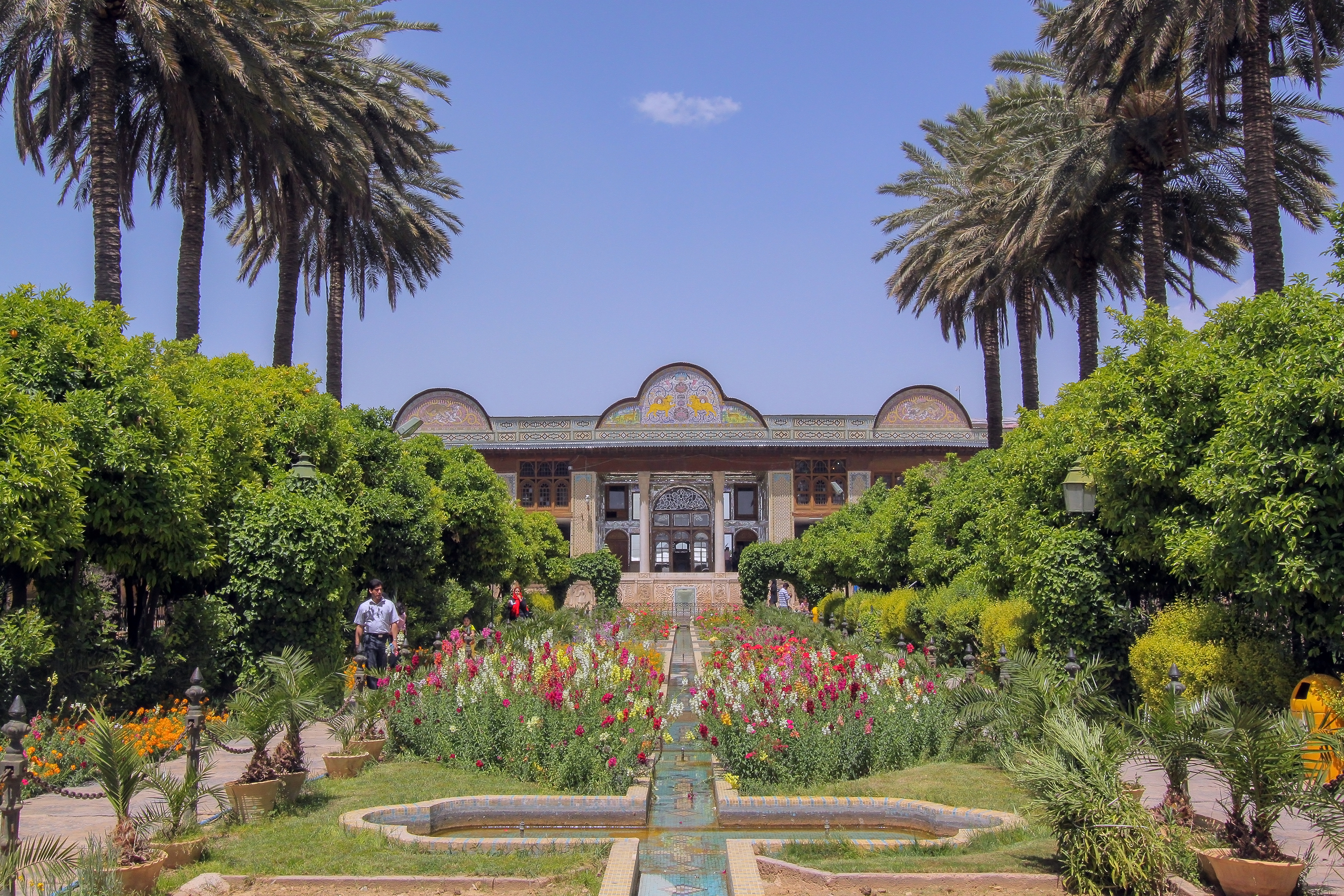 Qavam House is a traditional and historical house in Shiraz, Iran. It is at walking distance from the Khan Madrassa.